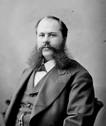 Dr. Thomas Robert McInnes, M.P., (New Westminster, B.C.)